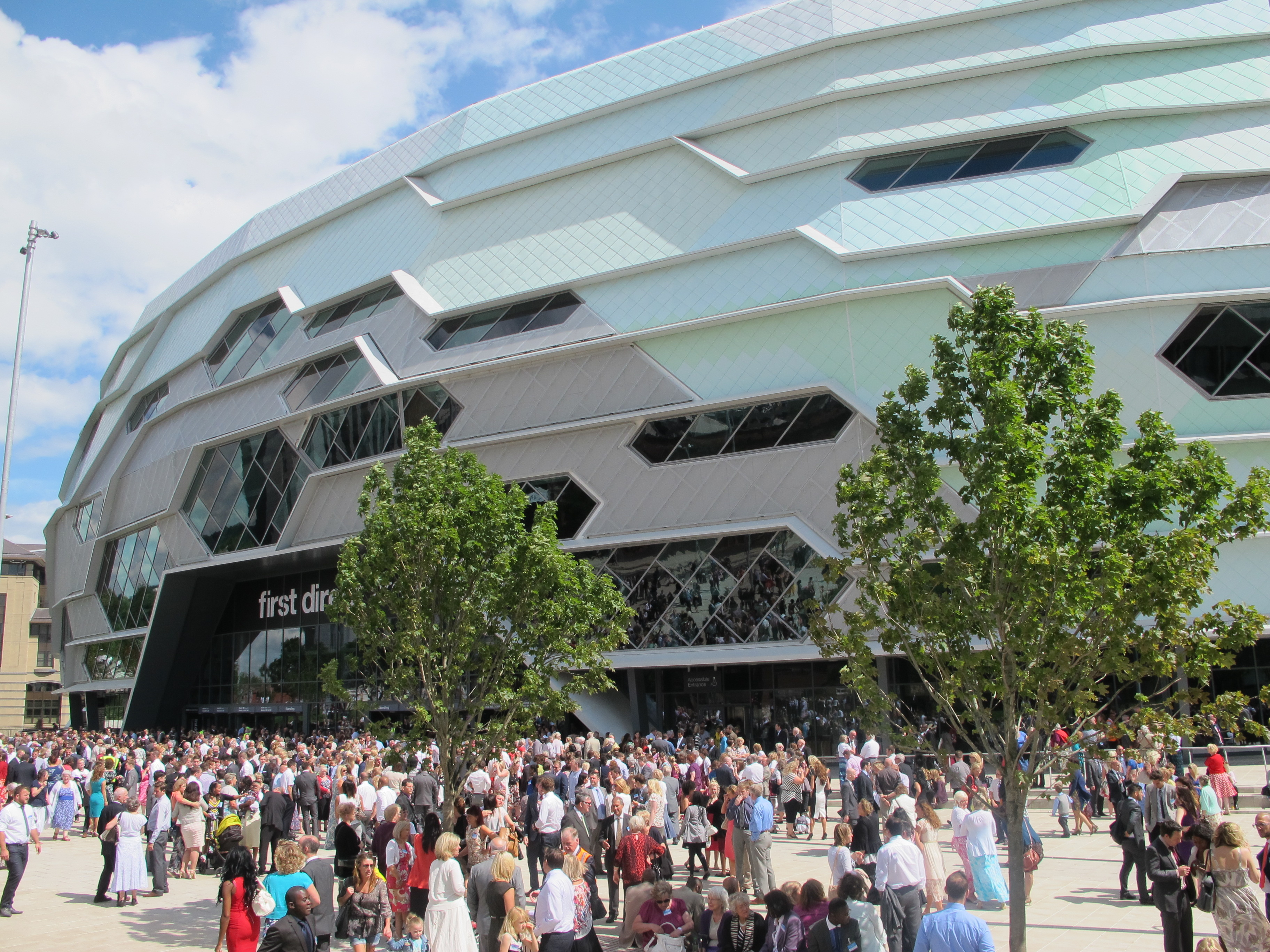 Leeds Arena